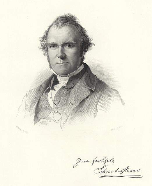 Baptist minister of Camberwell - abolitionist